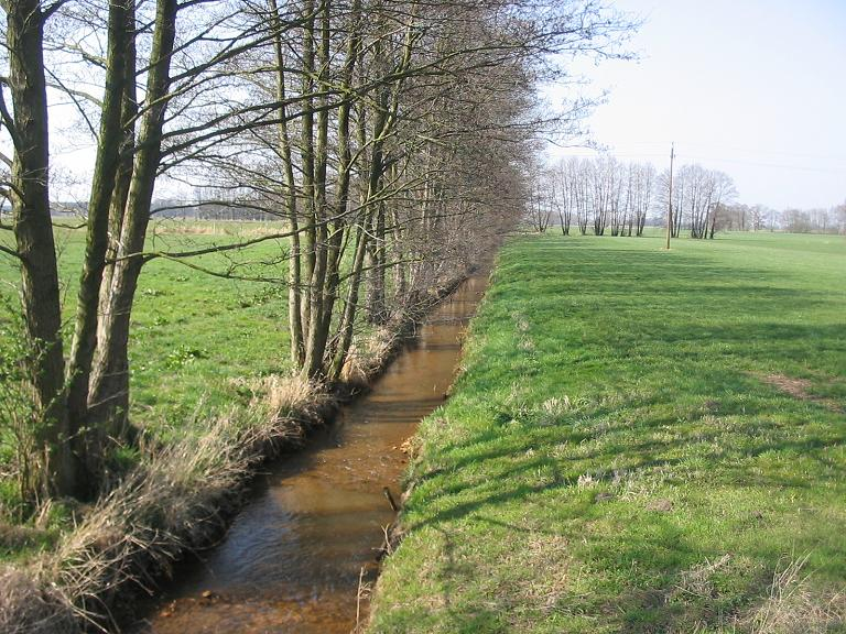 Middle River Nuthe in the village Mühro, one of three spring-rivers. Mühro is a part of municipality Polenzko in the nature park Fläming. Polenzko belongs to the the district Anhalt-Bitterfeld, state Saxony-Anhalt, Germany.